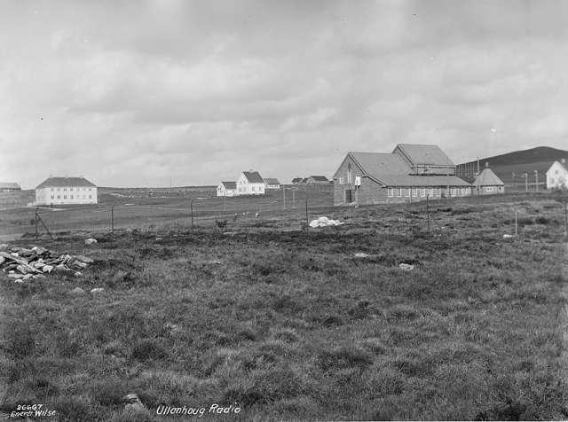 Stavanger Radio, Ullandhaug, Norway